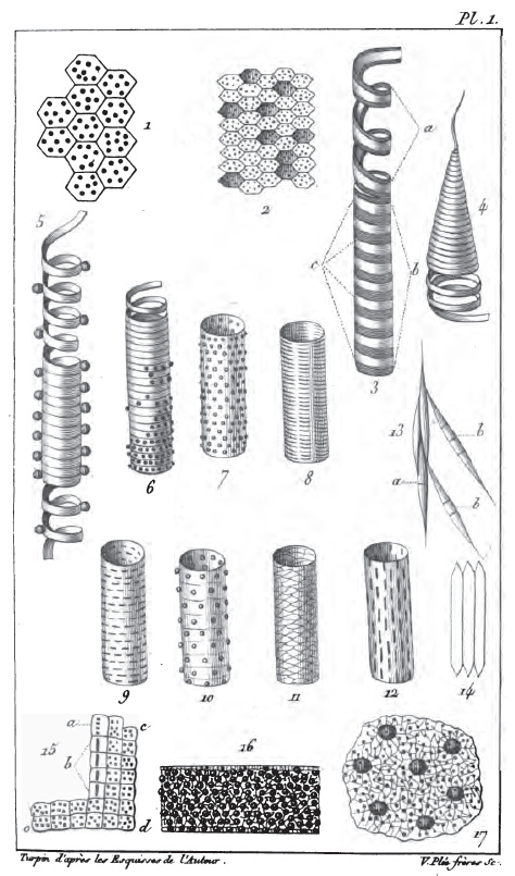 Turpin, cells based on sketches by Henri Dutrochet (1776-1847). Planche 1